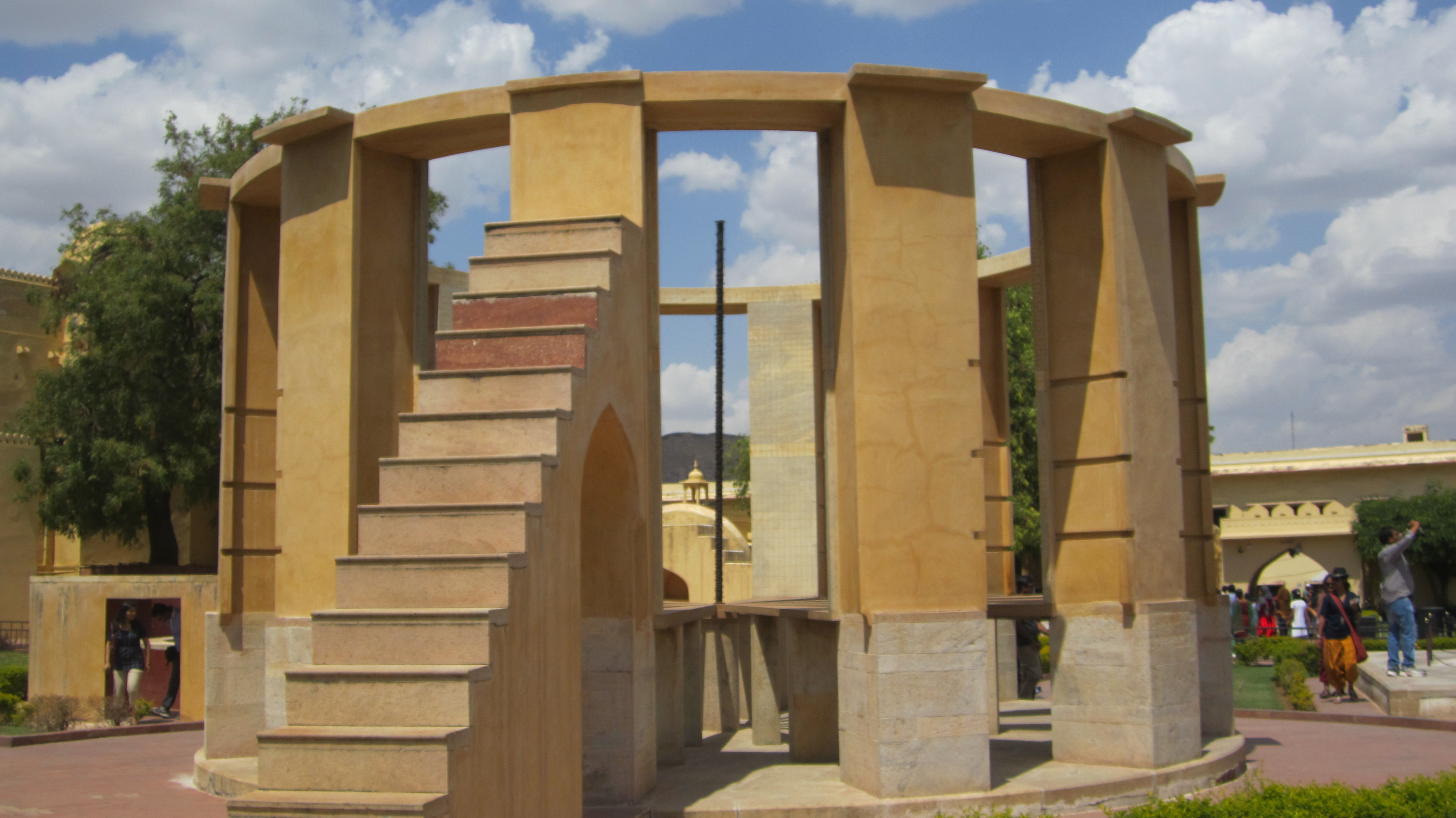 Ram Yantra can measure local co-ordinates of azimuth and altitude of a celestial object.